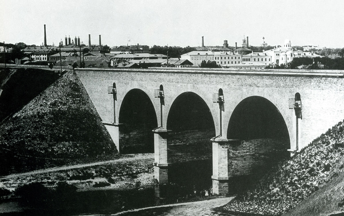 Andronikov railway bridge over Yauza, Moscow.